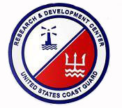 United States Coast Guard Research & Development Center logo. Source: [1]